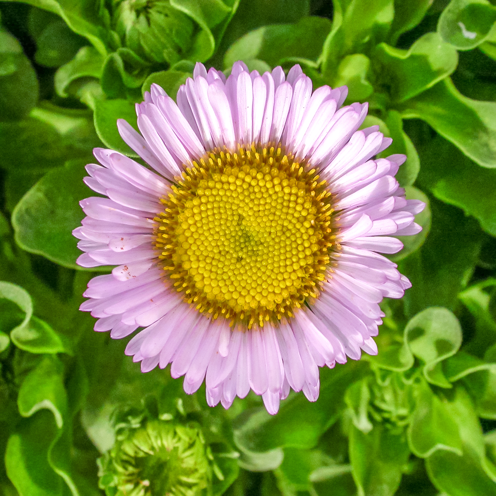 Photographed at BioTrek. Contributed and © by Curtis Clark. Licensed as noted.